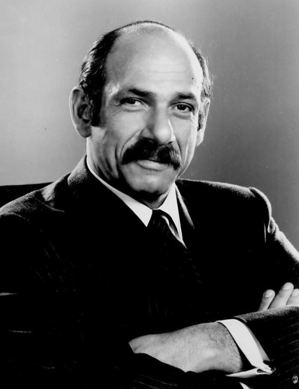 Photo of Herschel Bernardi from the television program Arnie.